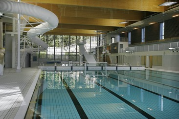 Photographer: unknown